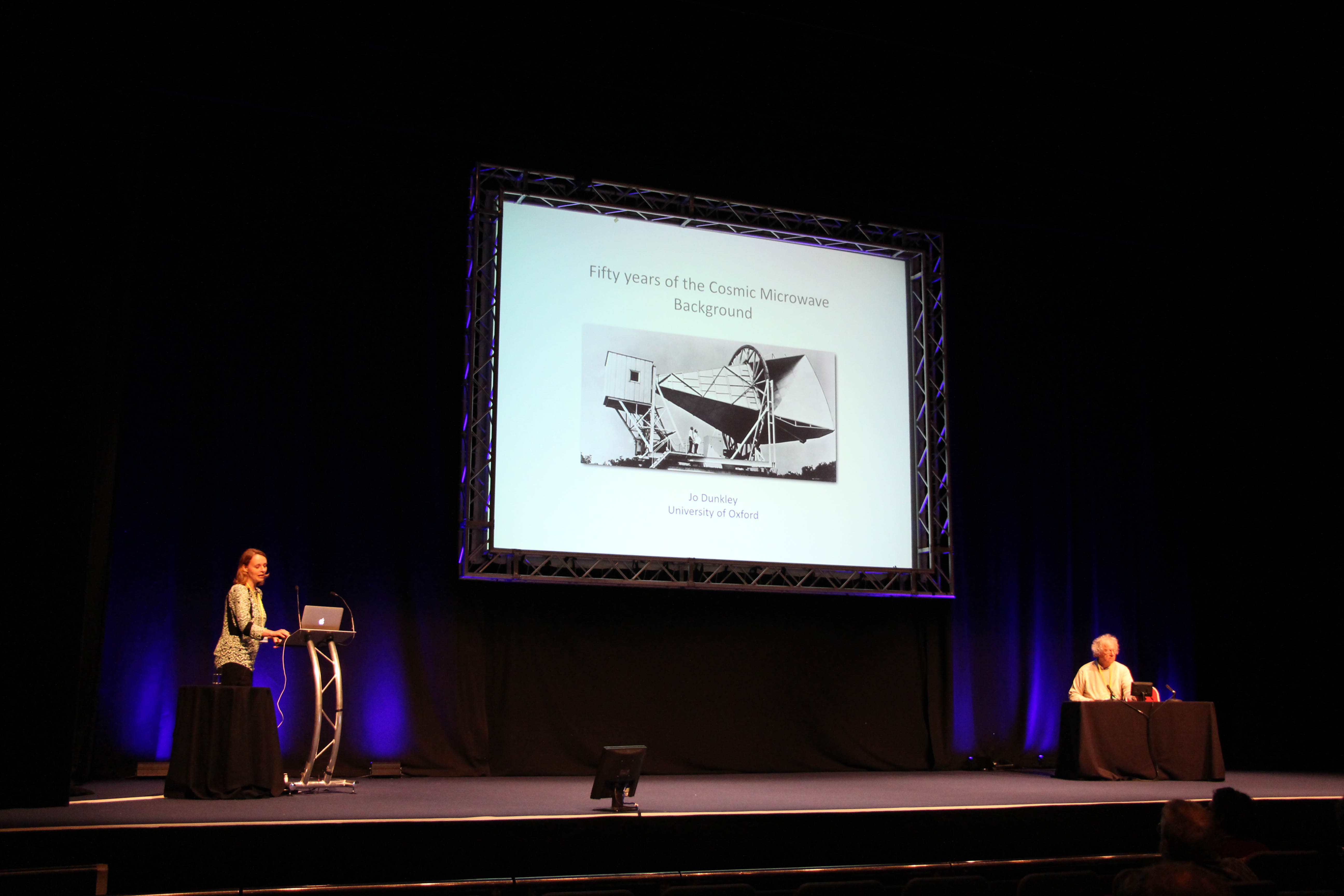 Jo Dunkley delivers plenary lecture